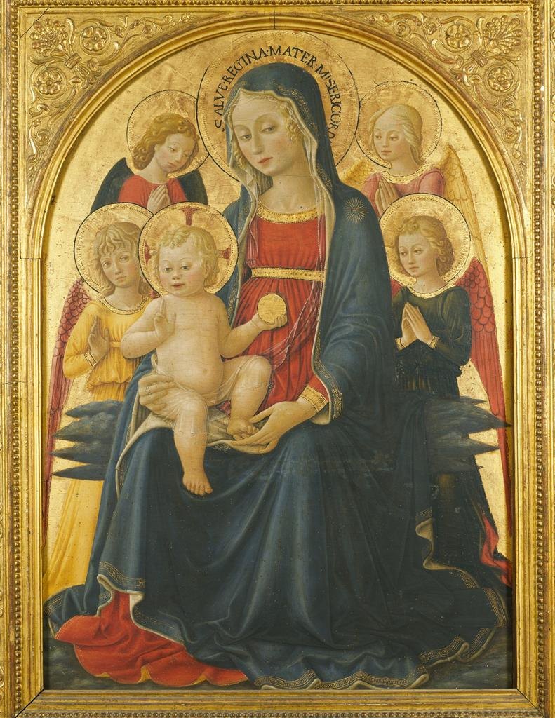 tempora and gold on panel, 1450